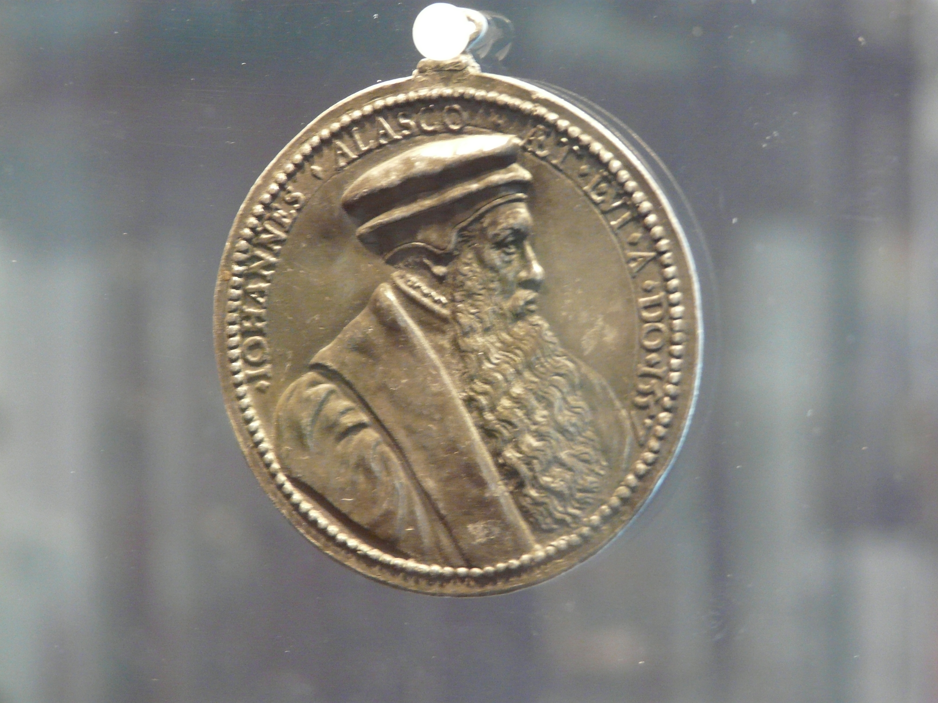 From the collection of the National Museum in Poznań. Jan Łaski, 1557